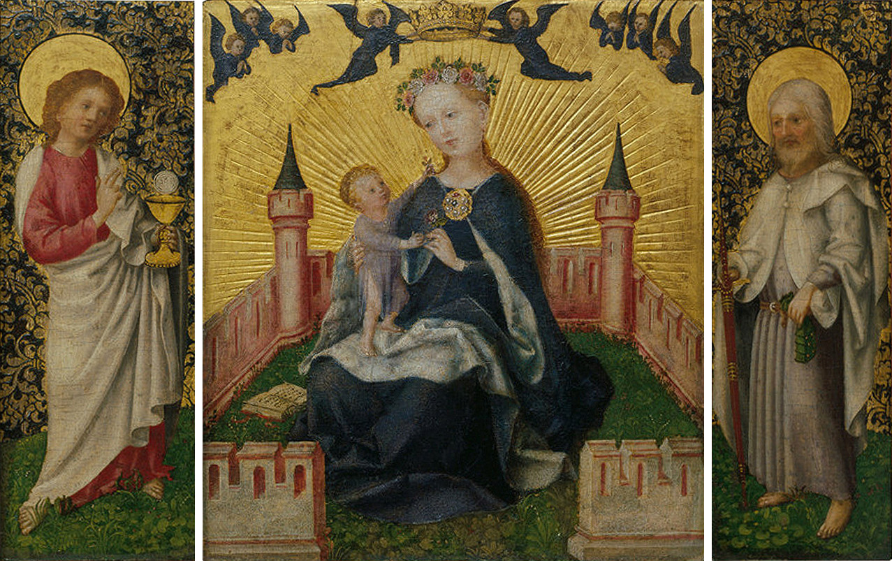 Triptych with the Virgin in the Garden of Paradise, Rheinisches Bildarchiv, Köln